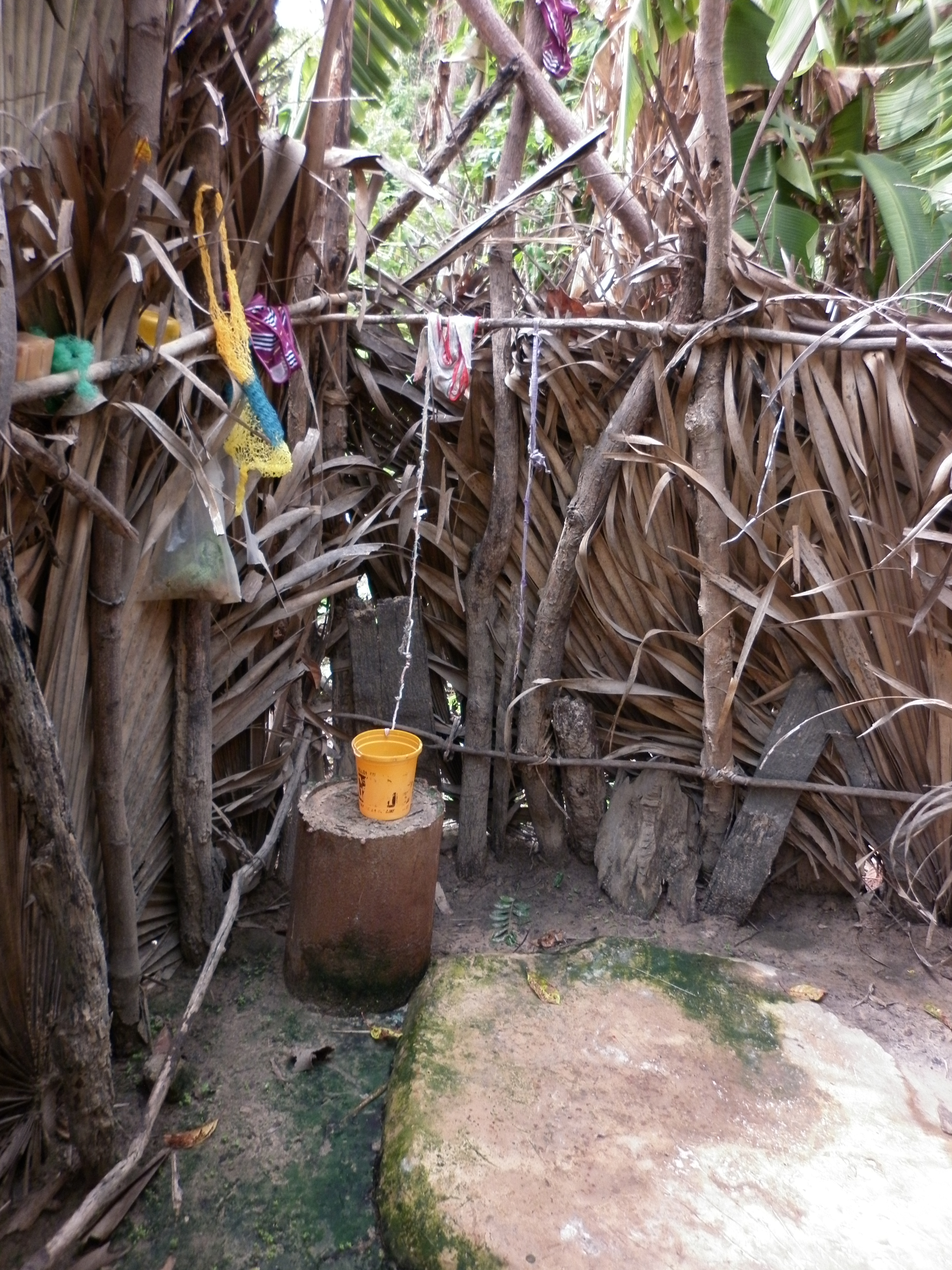 Senegalese bush bathroom shower